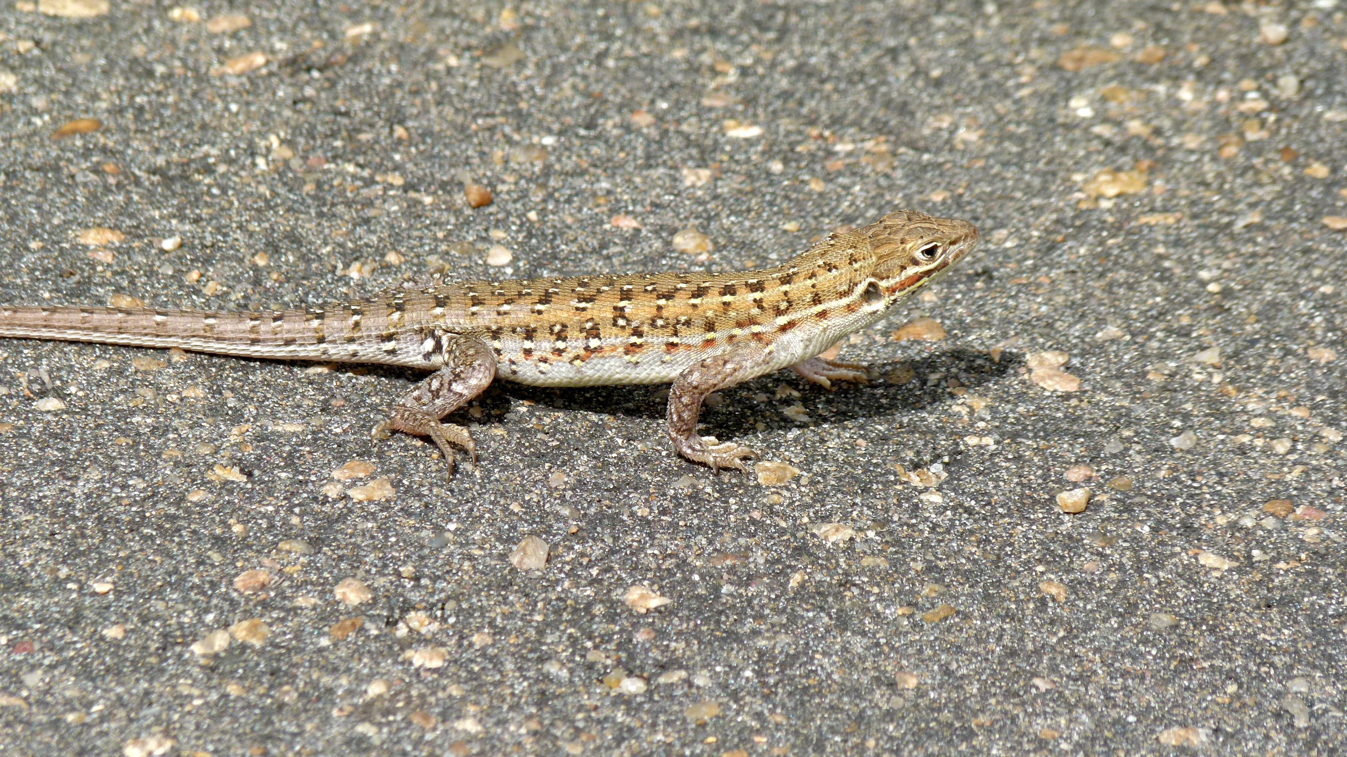 H1-3 South of Satara, Kruger NP, SOUTH AFRICA